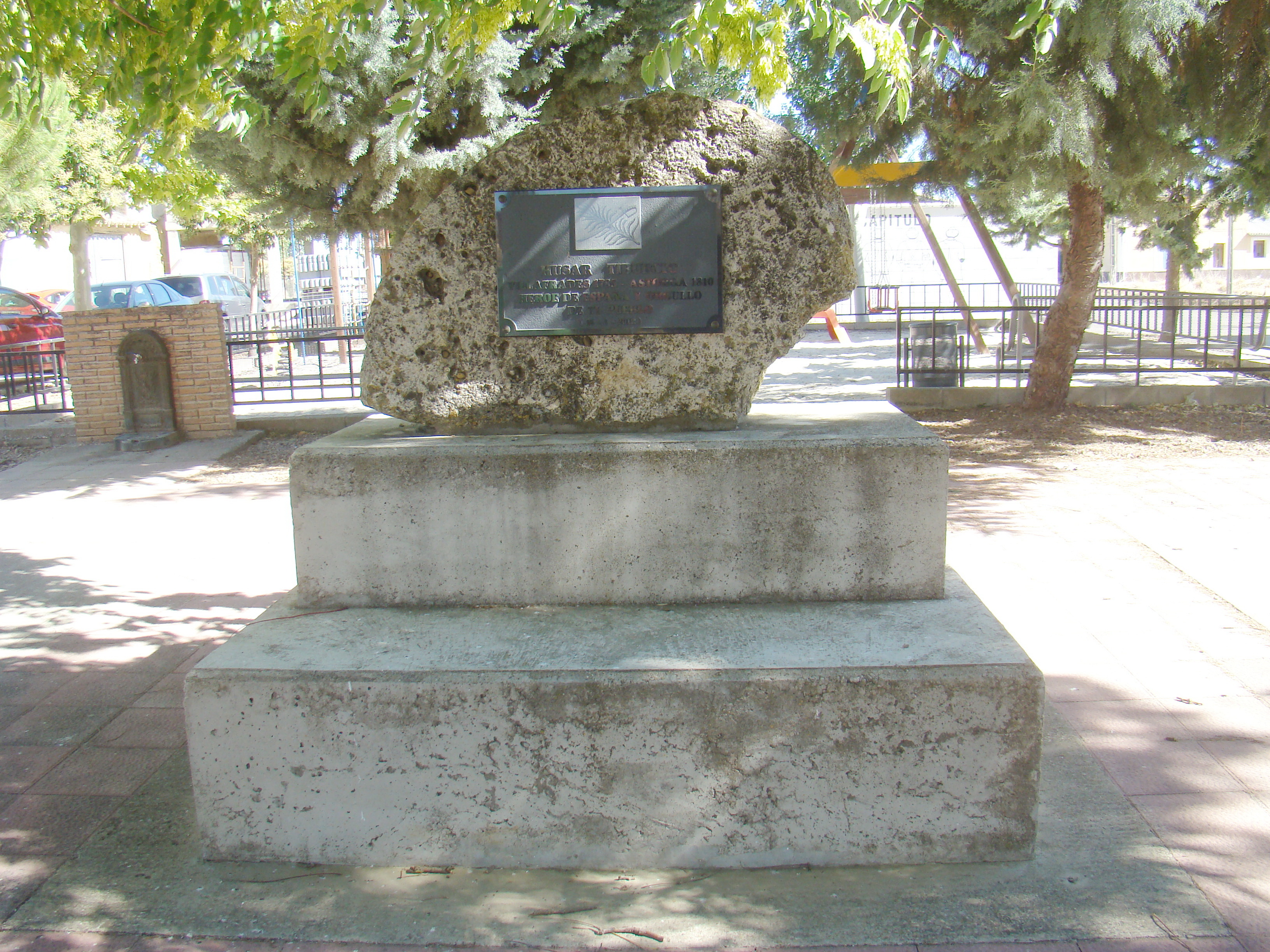 The hussar Tiburcio Fernández Maroto, a native of Villafrades de Campos, fought in Astorga in defense of this city against Napoleon's troops; He was shot in Puerta Obispo on April 22, 1810 after shouting that "if Astorga surrendered, he would not".